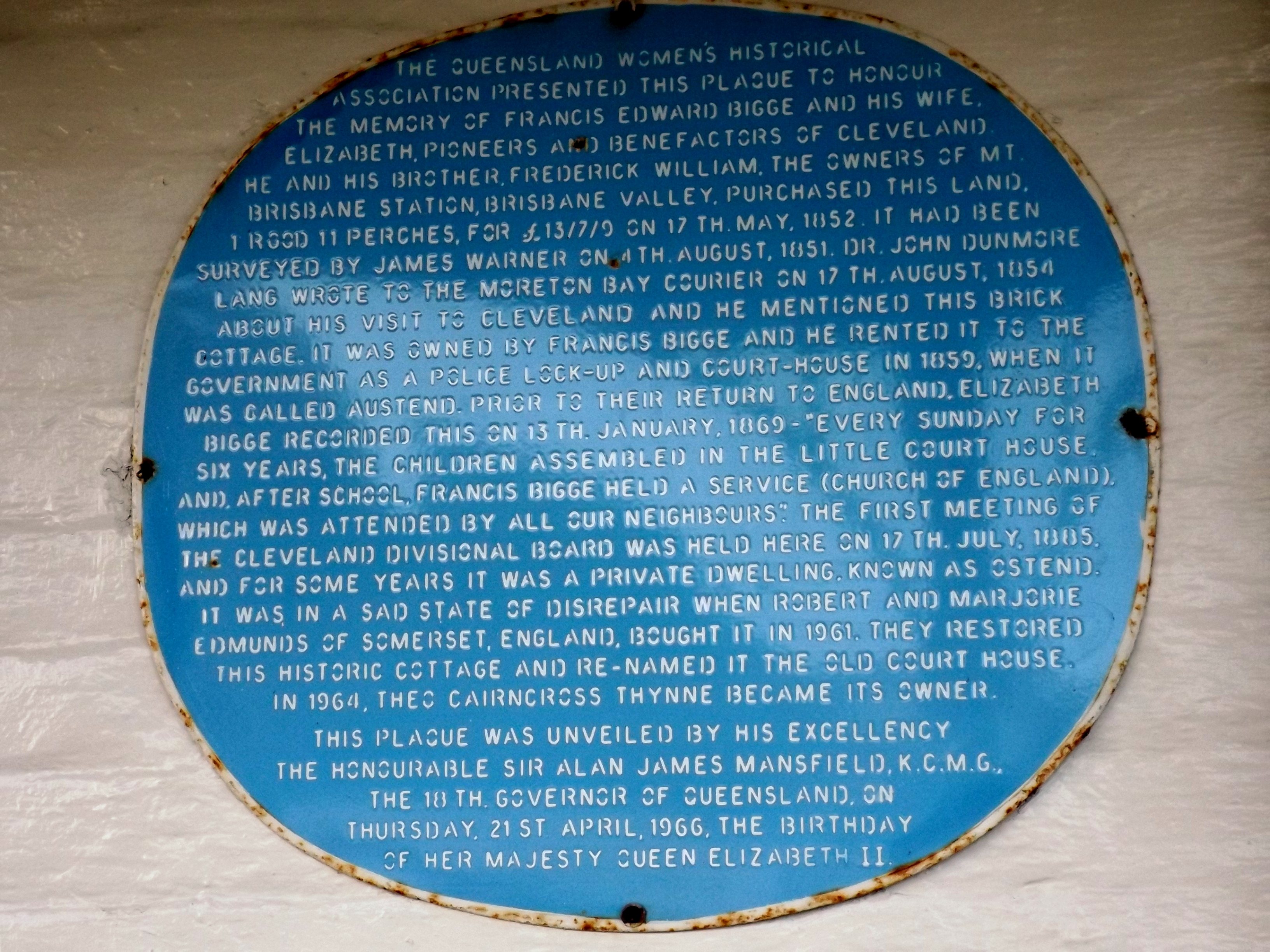 Photo of Old Cleveland Court House plaque at Cleveland, City of Redland, Queensland, Australia.